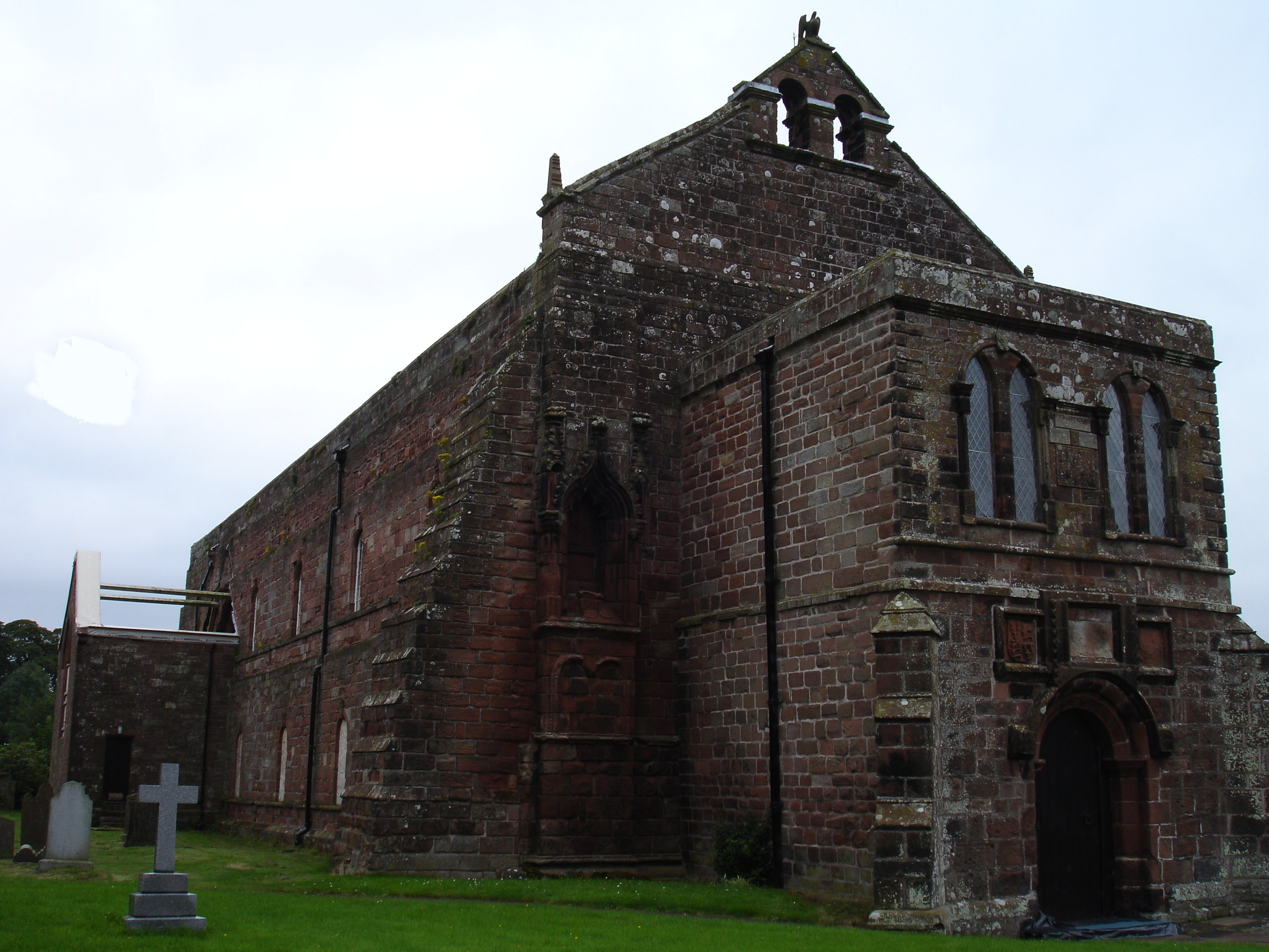 Photograph of Holm Cultram Abbey, Cumbria, England